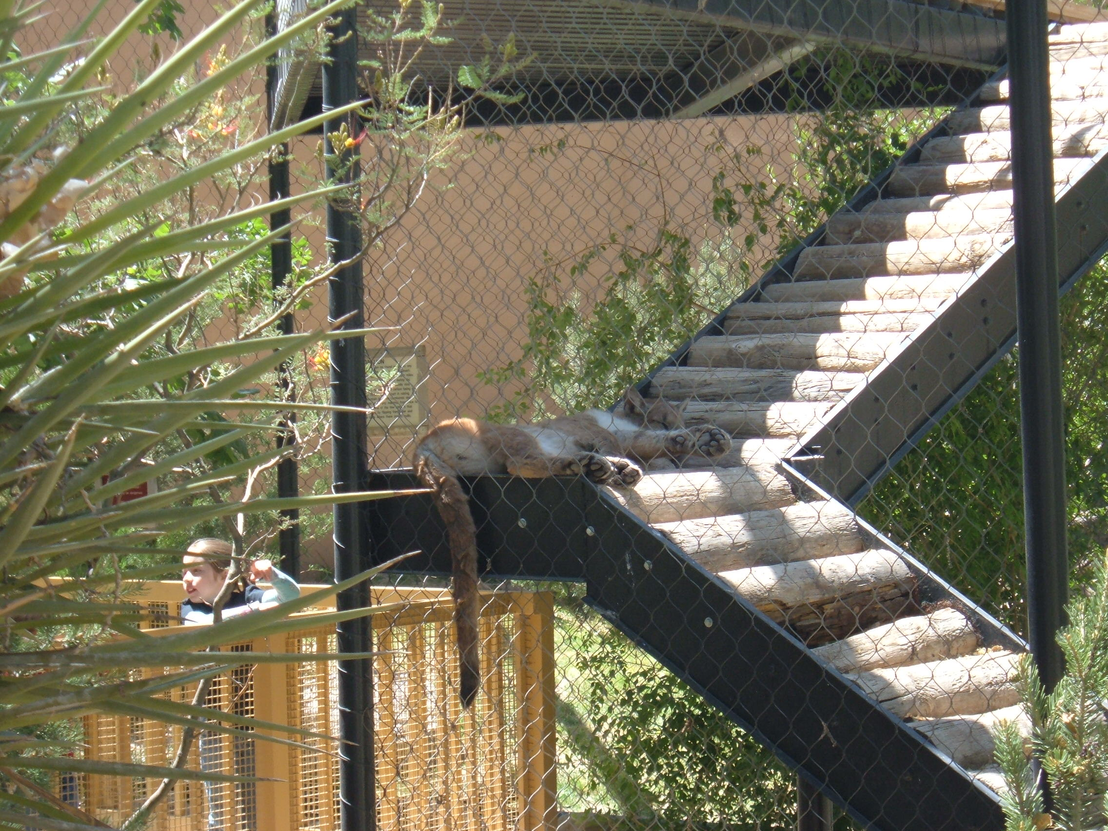 Puma (Cougar, Mountain Lion) sleeping on the steps at Alameda Park Zoo. The Zoo is at the corner of White Sands Blvd and 10th St in Alamogordo, New Mexico.